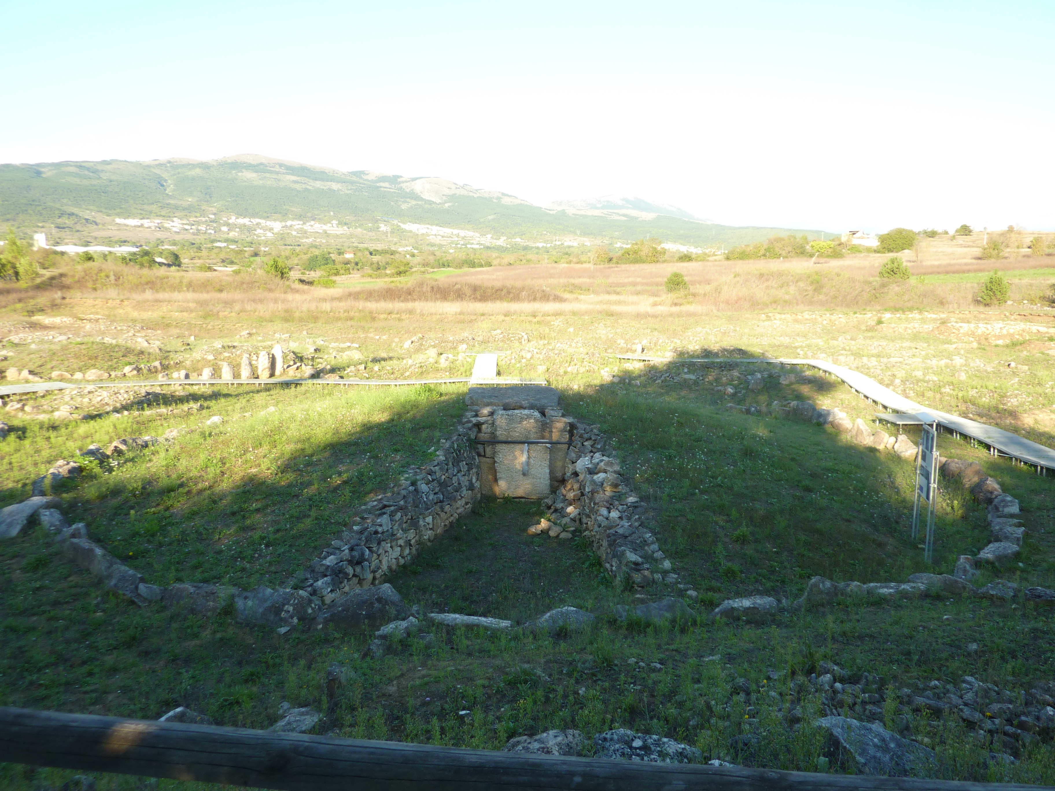 Fossa (AQ): Necropoli